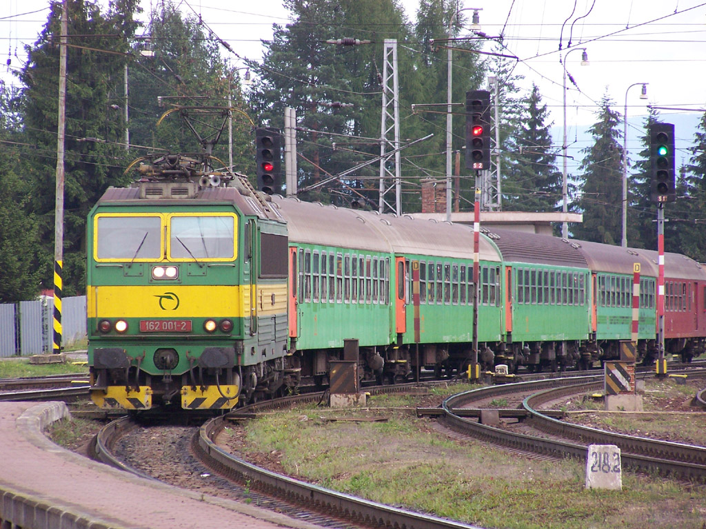 Locomotive Class 162 in Štrba train station